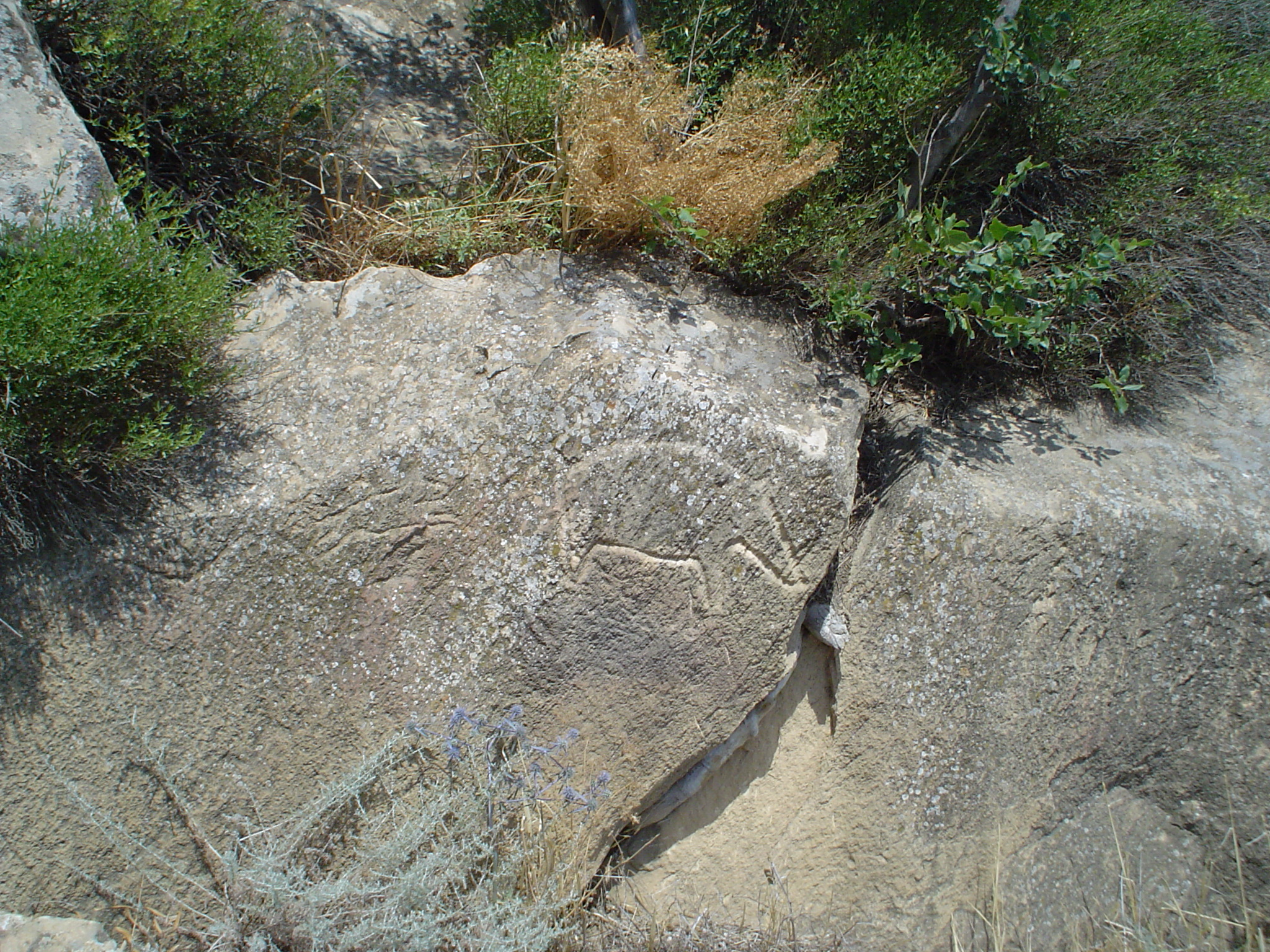 2008-07-14 Qobustan, Azerbaijan: Petroglyph of boar. In the Qobustan Petroglyph Reserve there are more than 6,000 petroglyphs carved by the hunter-gatherers that lived in these caves 12,000 years ago. At that time the Caspian Sea was a lot higher and washed against the lower rocks in the hill.